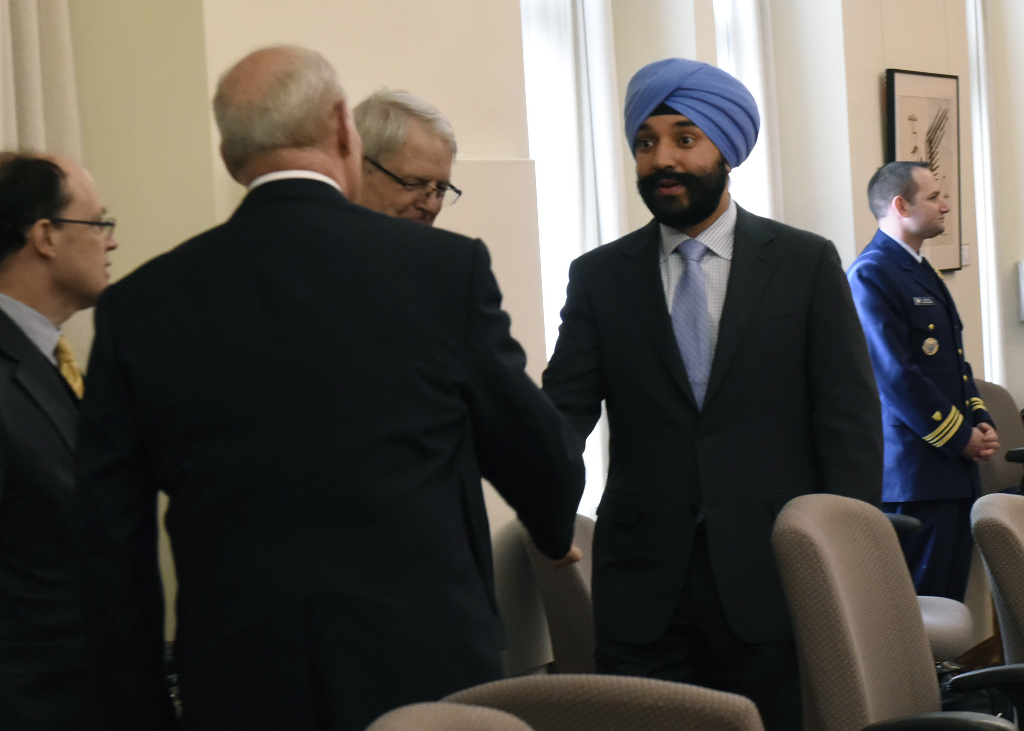 OTTAWA - Secretary of Homeland Security John Kelly meets with Navdeep Bains, Minister of Innovation, Science and Economic Development during his first trip to Ottawa, Canada as Secretary, March 10, 2017. Official DHS photo by Barry Bahler.